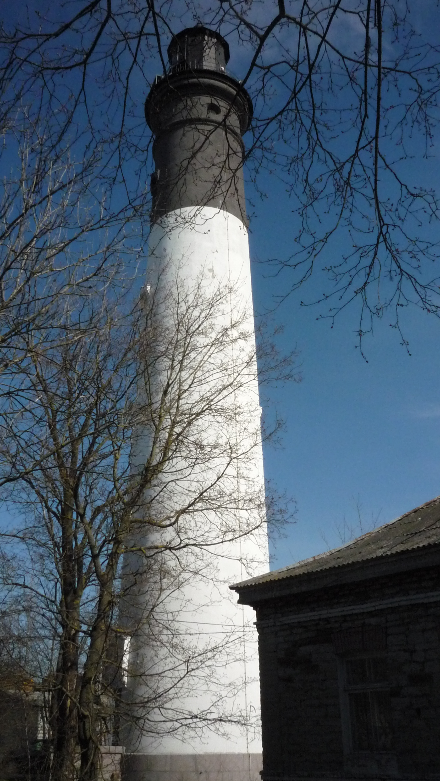 Tallinn rear (southern) lighthouse. April 30, 2011. View from west side. Lighthouse was open for one day because there was a lighthouse exhibition running in The Museum of Estonian Architecture. This lighthouse was built of limestone in 1896. Originally, there was a wooden tower in the same place, built in 1835.